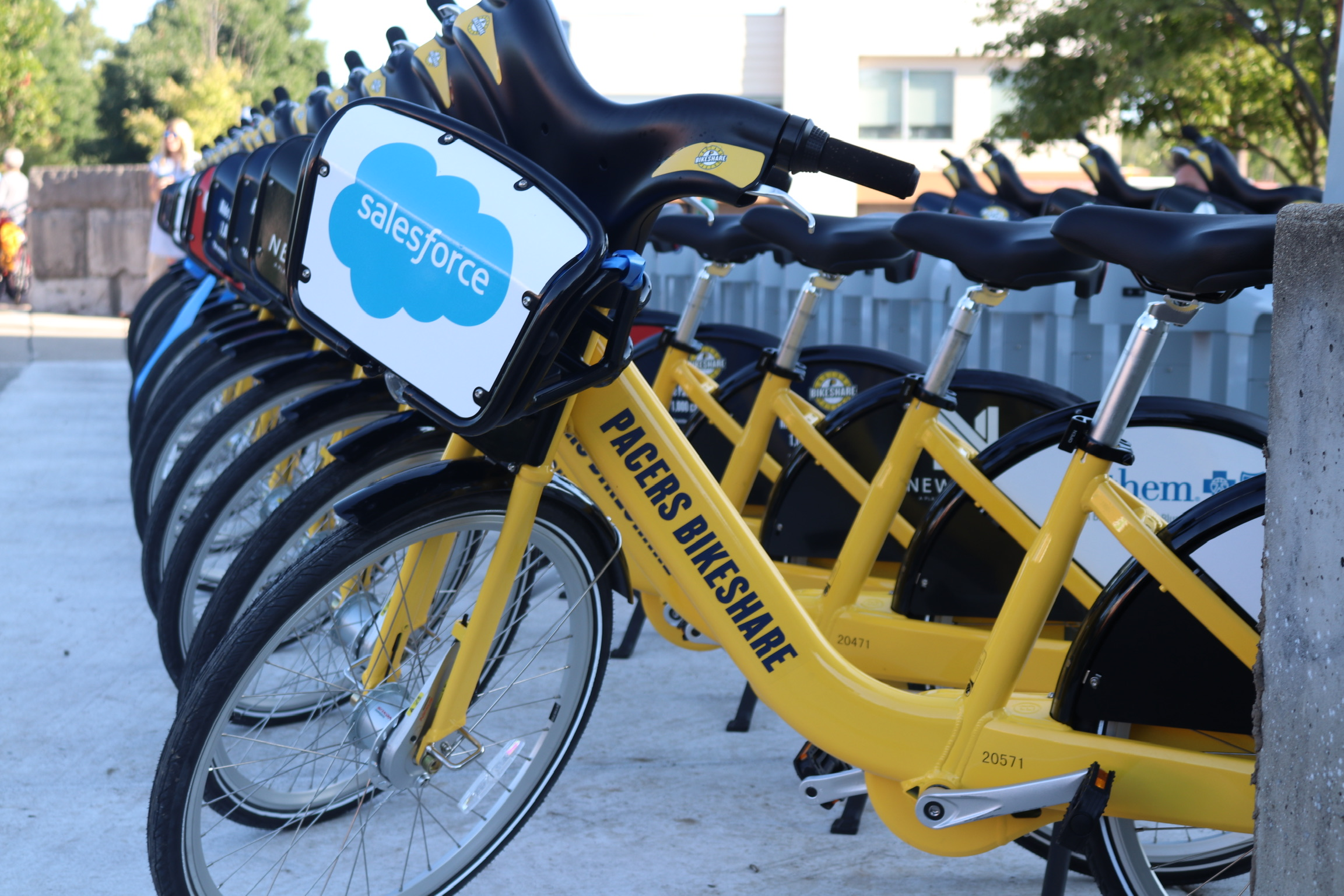 This photo depicts a Pacers Bikeshare station in Broad Ripple, Indianapolis, Indiana, USA in September 2019.